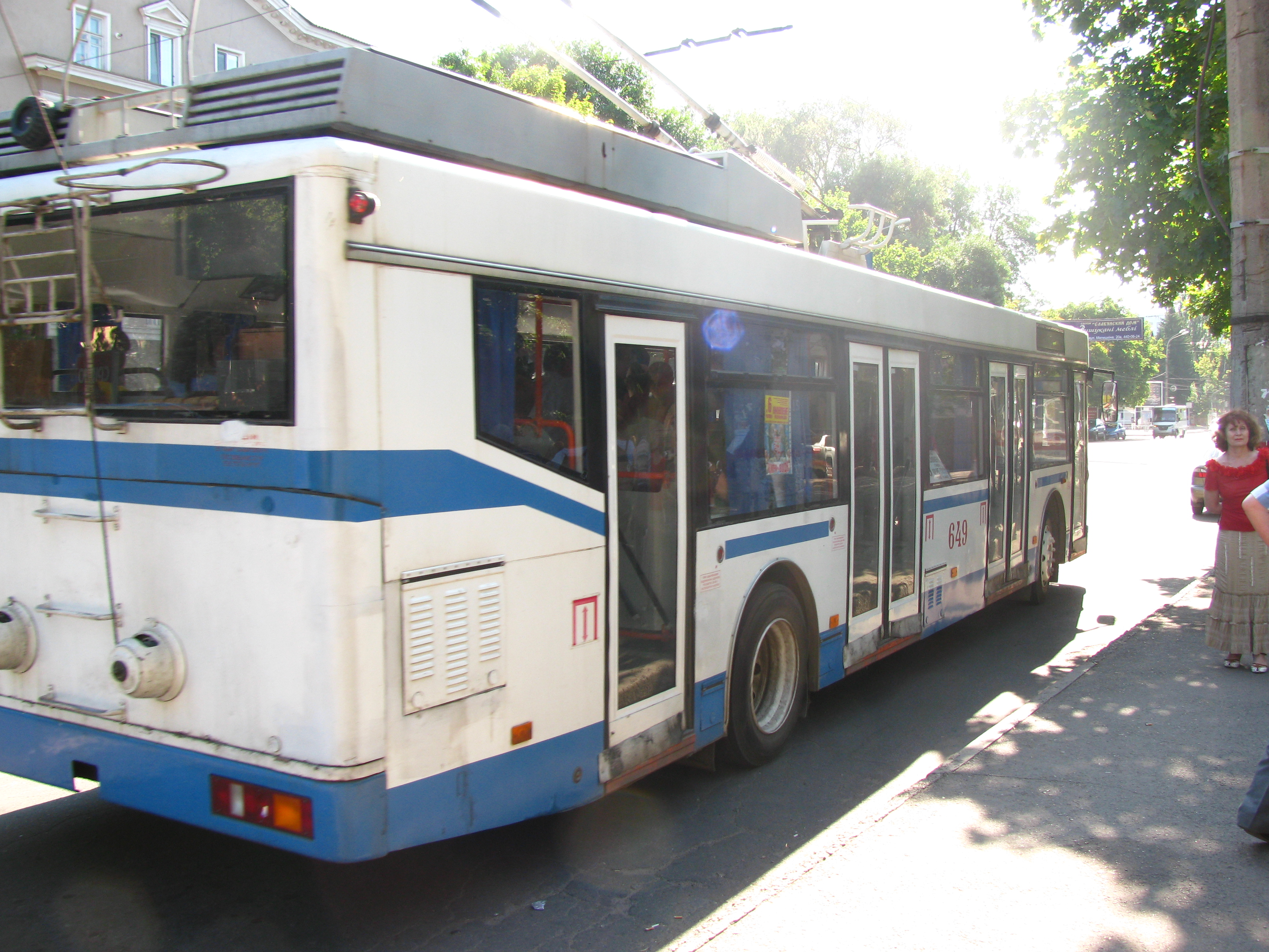 Trolleybus YuMZ E-186, Kryvyi Rih